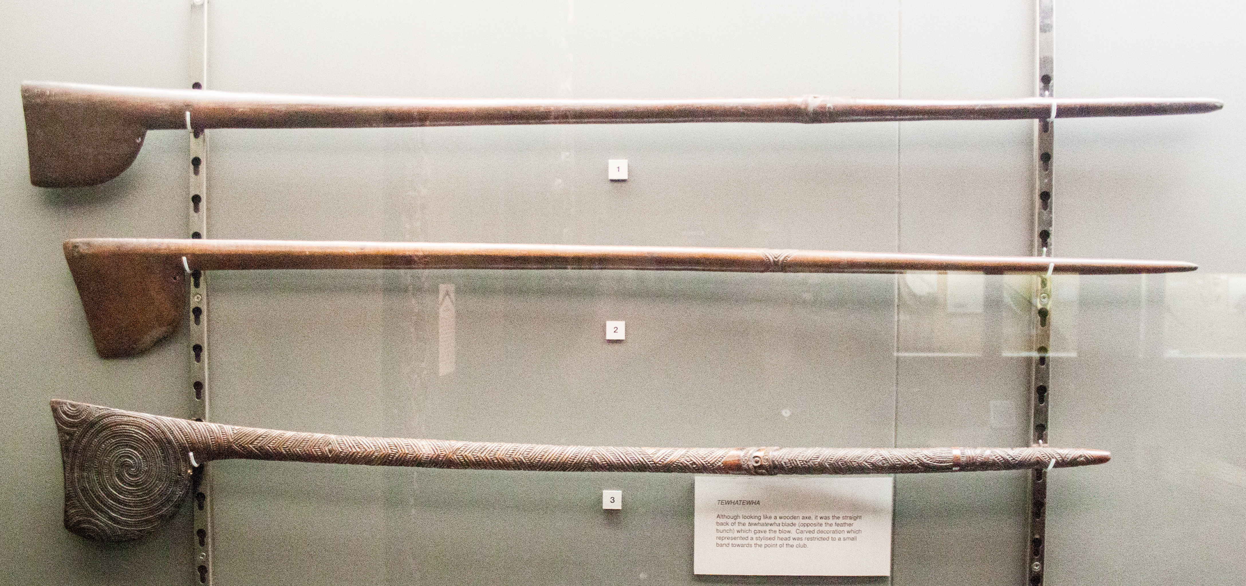 Maori weapons (tewhatewha)